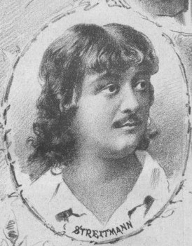 Portrait of Karl Streitmann (1858-1937), Austrian opera singer.